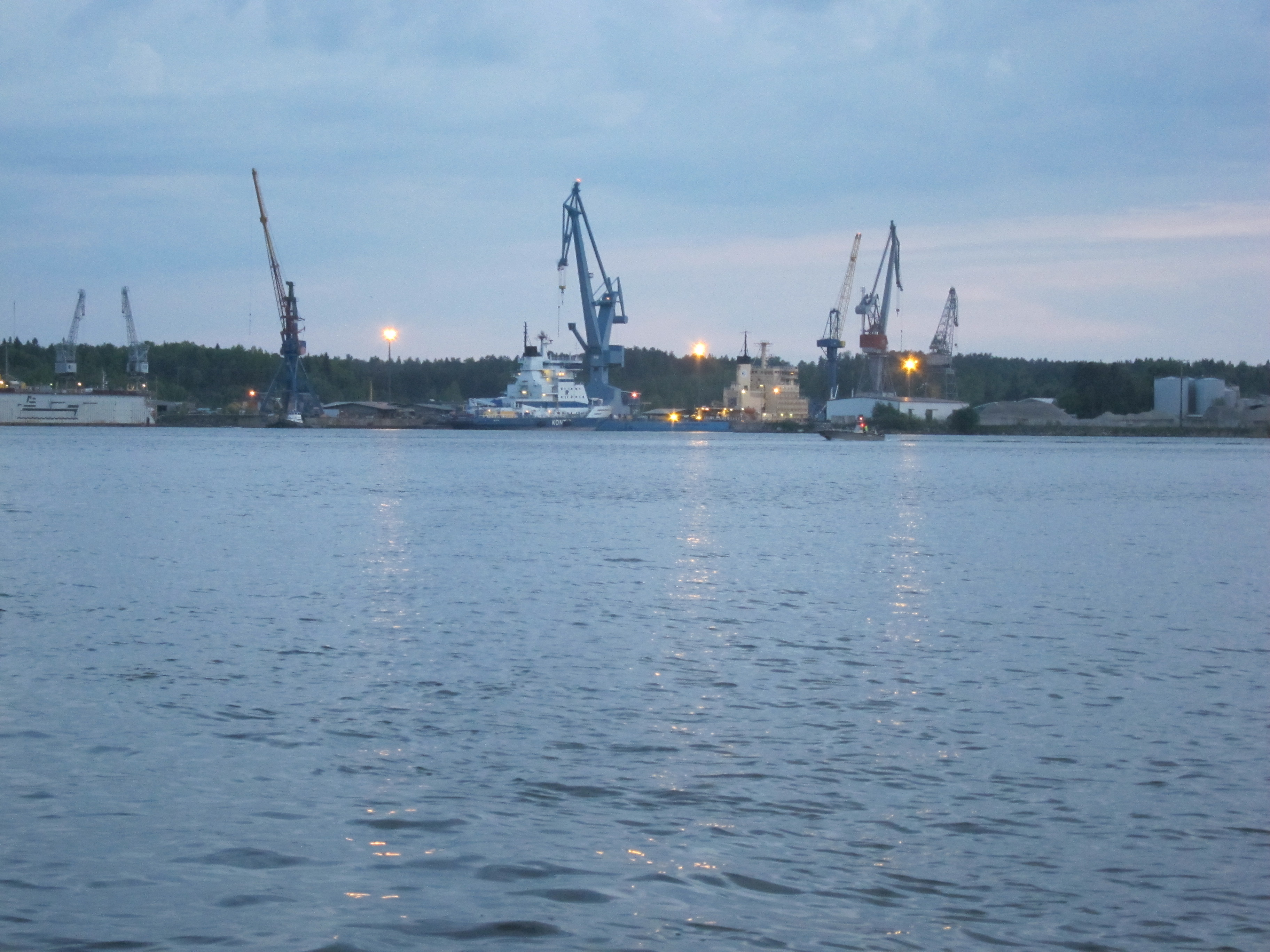 Finnish icebreakers Kontio and Urho docked for repairing at Turku Repair Yard, Naantali, Finland. Photographed from Luonnonmaa, Naantali.